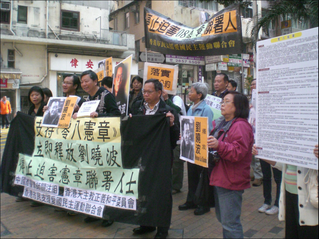 Charter 08 - 劉曉波 - Liu Xiaobo